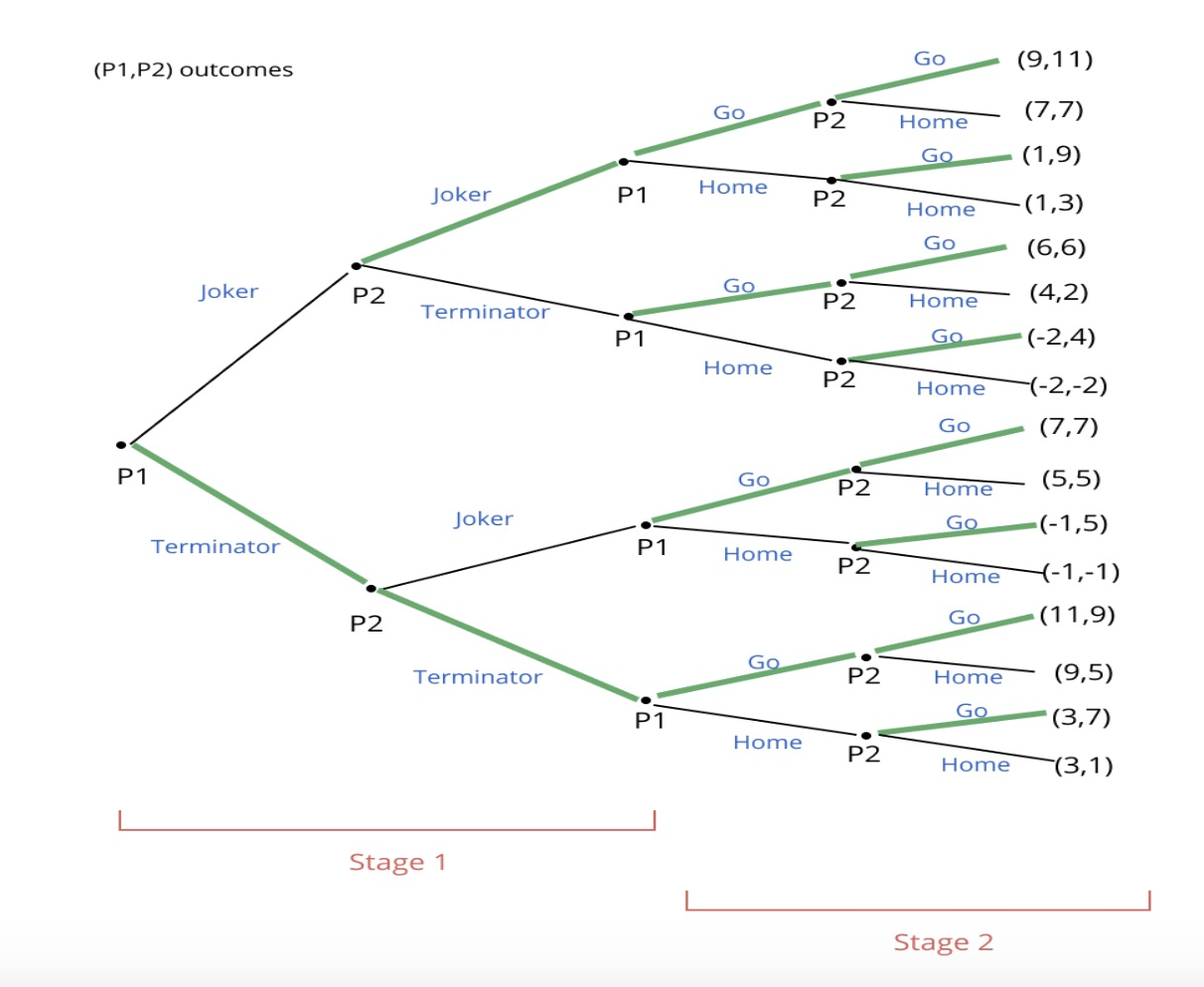 This is the extensive form version of the Normal form game I am trying to make edits to the backward induction page, specifically about game theory.